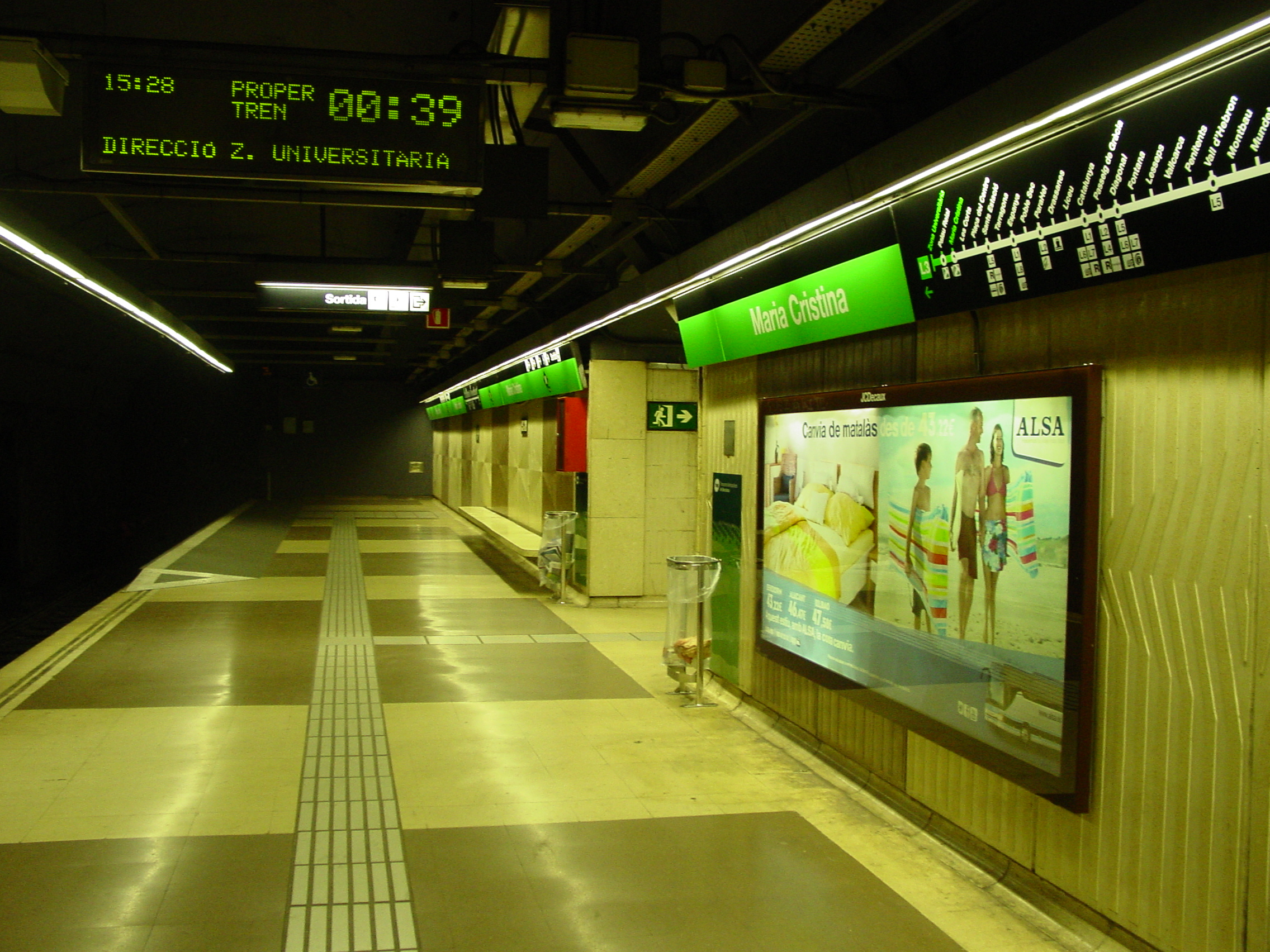 Platform view of Maria Cristina station, line 3, Barcelona metro. 3.9.2013